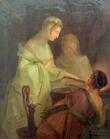 Andacht - Vestalinnen am Altar der Vesta